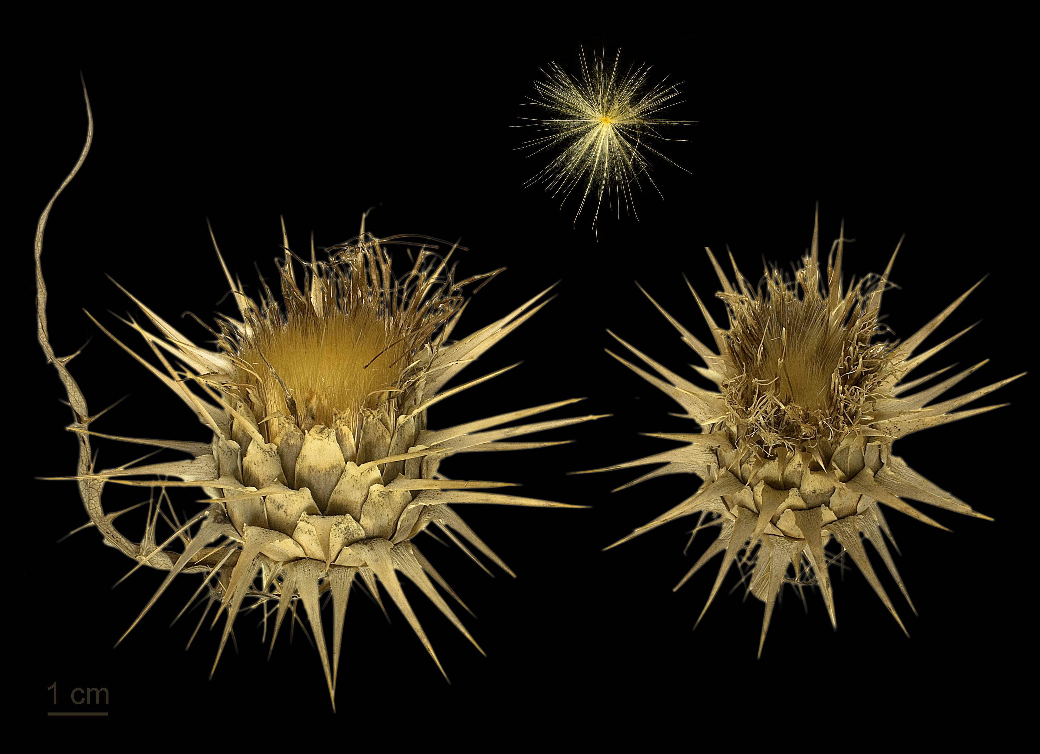 Cardoon , fruits and seeds